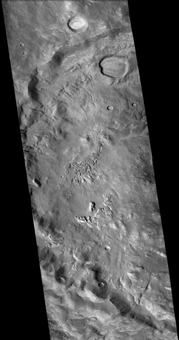 Lanpland Crater, as seen by ctx